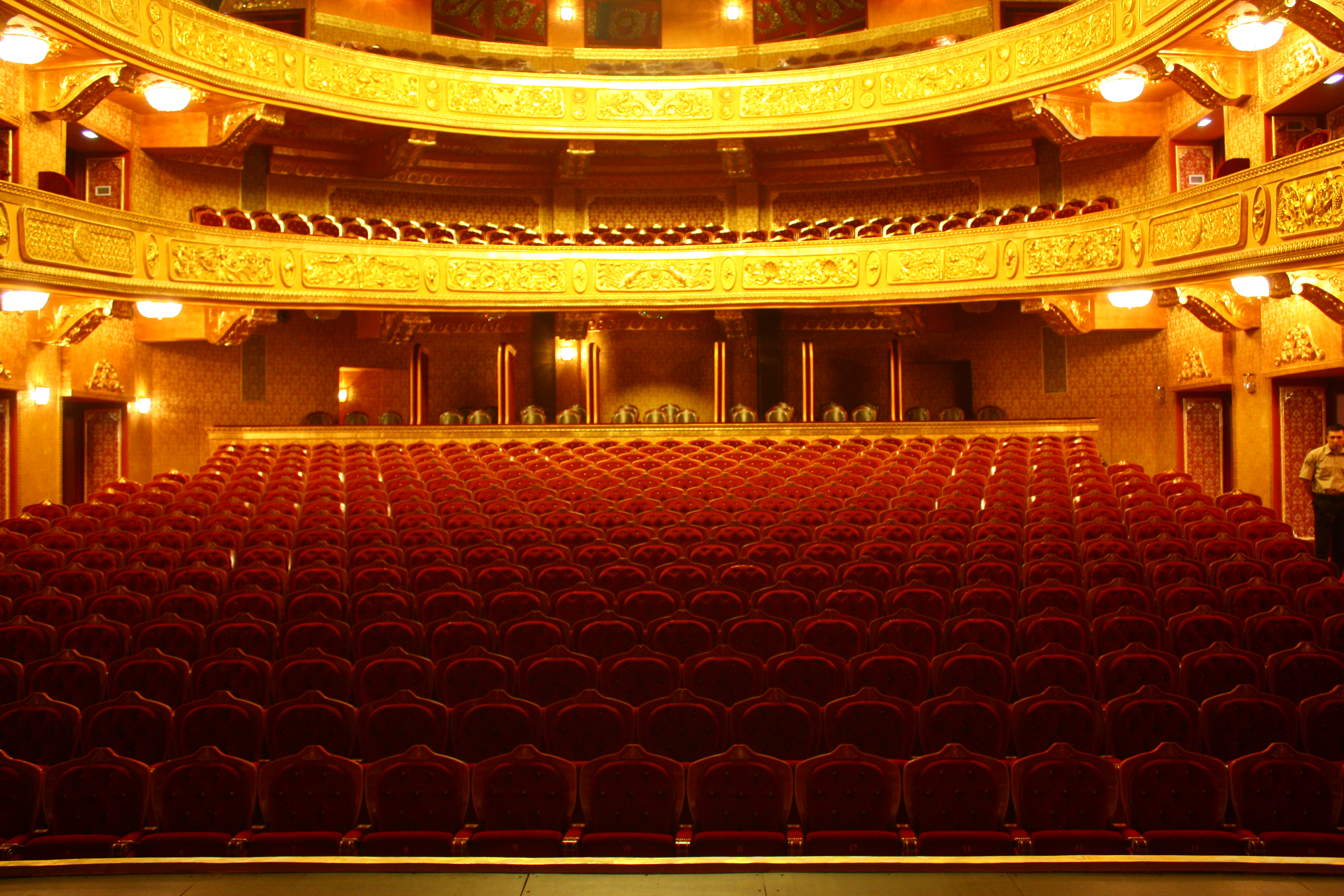 Macedonian National Theatre in Skopje , Macedonia